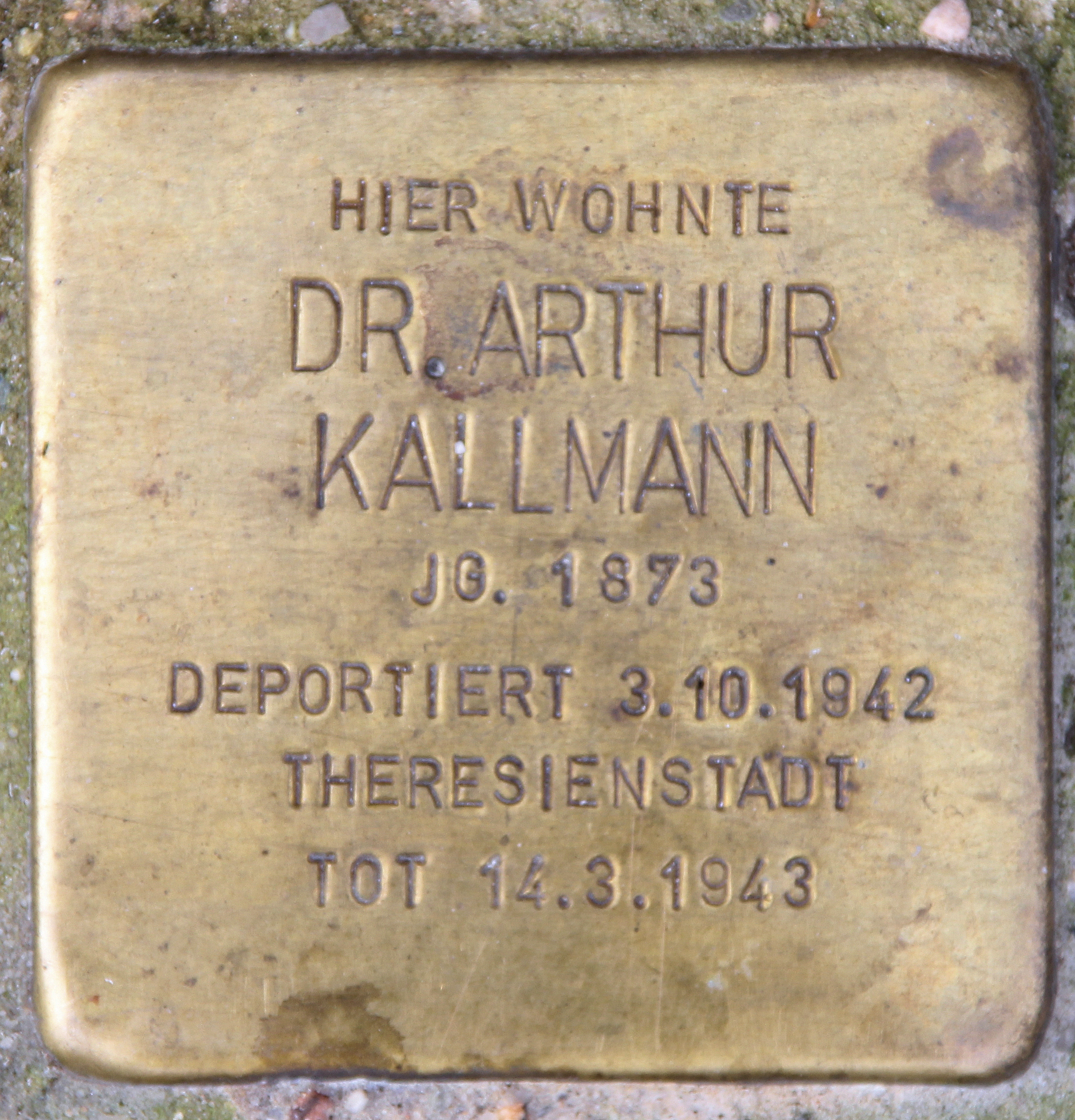 "Stolperstein" (stumbling block), Arthur Kallmann, Geisbergstraße 41, Berlin-Schöneberg, Germany Koordinate:52°29′49″N 13°20′36″E / 52.49694°N 13.34333°E